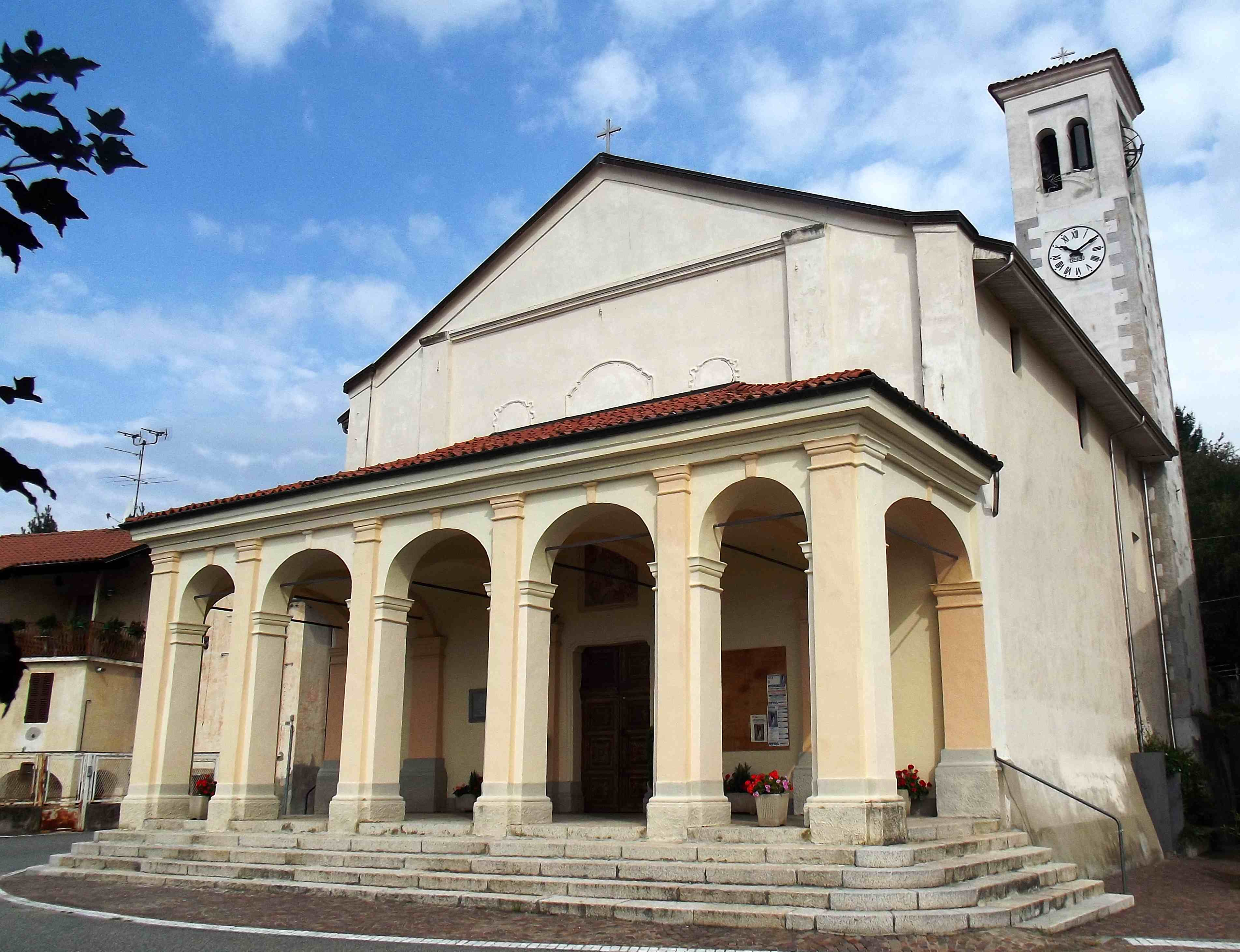 Soprana (BI, Italy): Saint Joseph's parish church